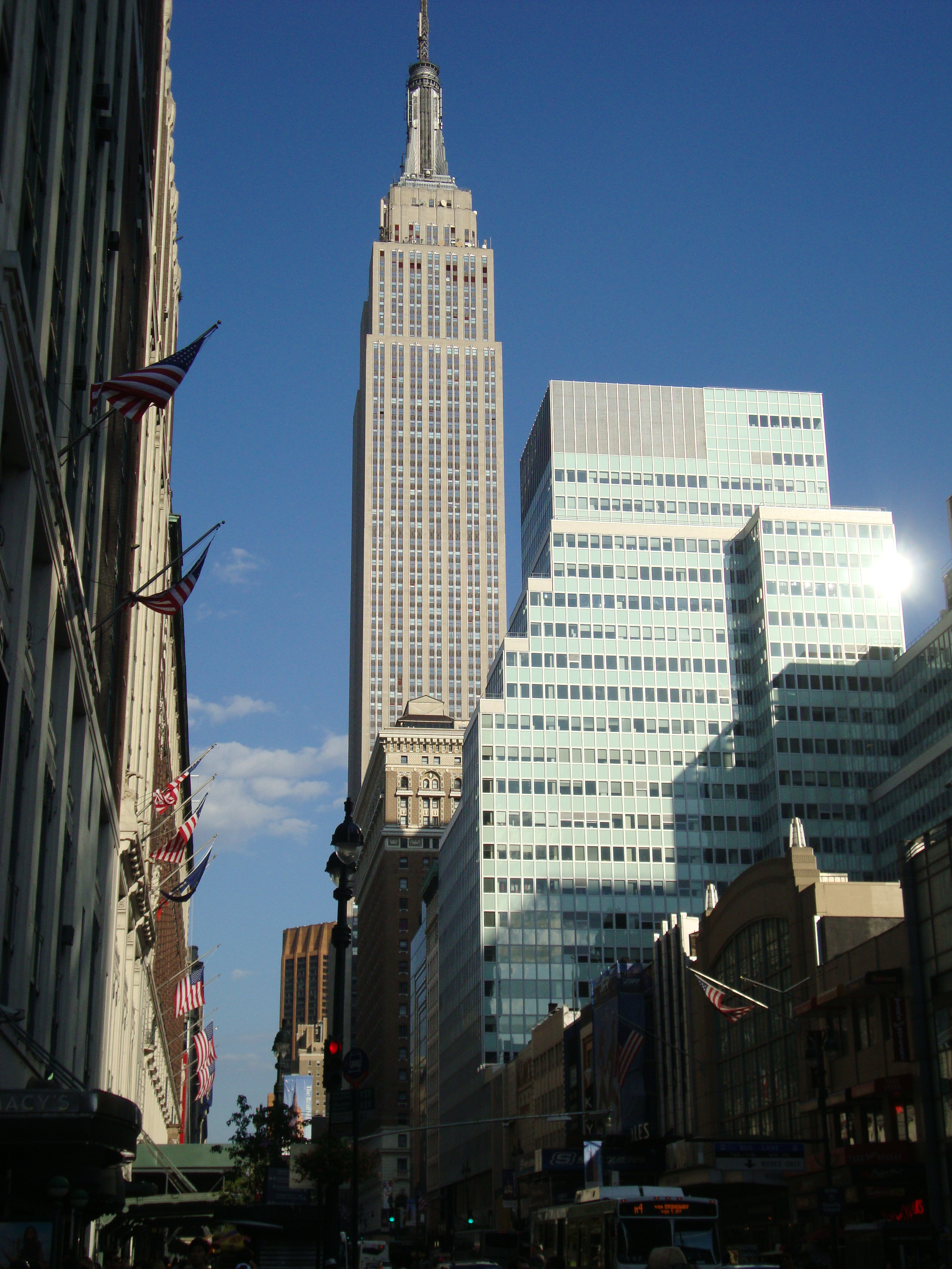 Empire State Building, NYC